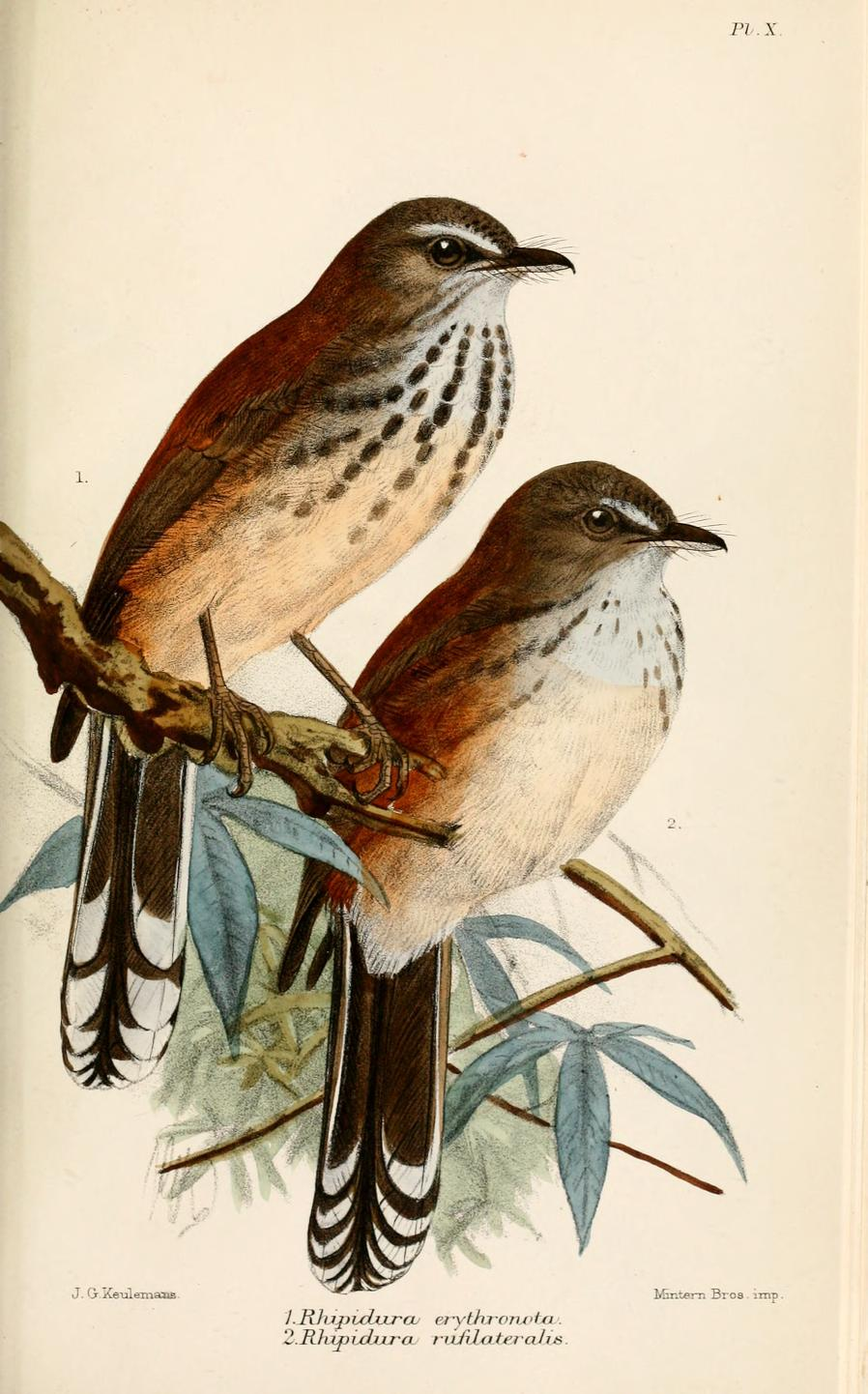 Streaked Fantail